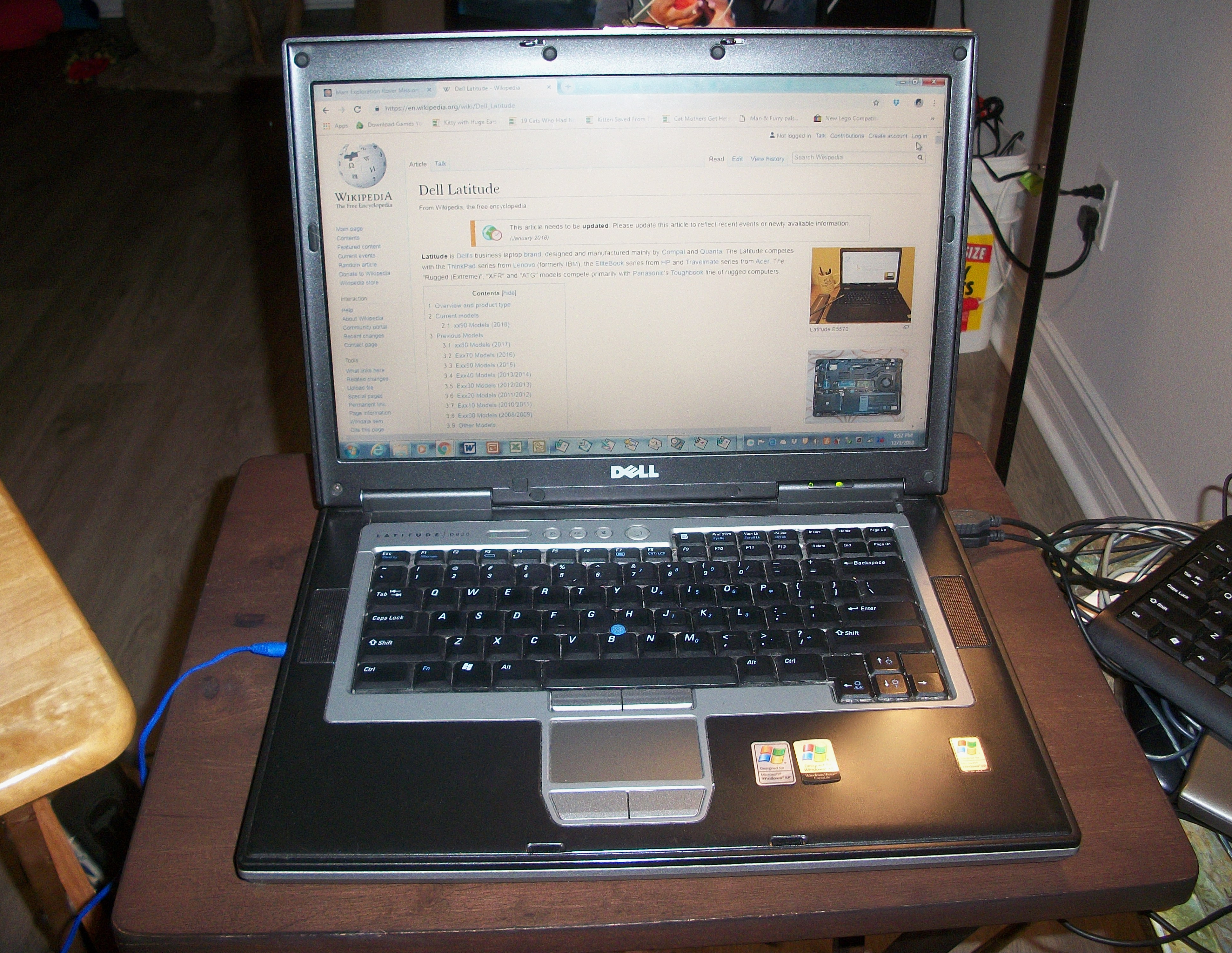 Dell Latitude D820